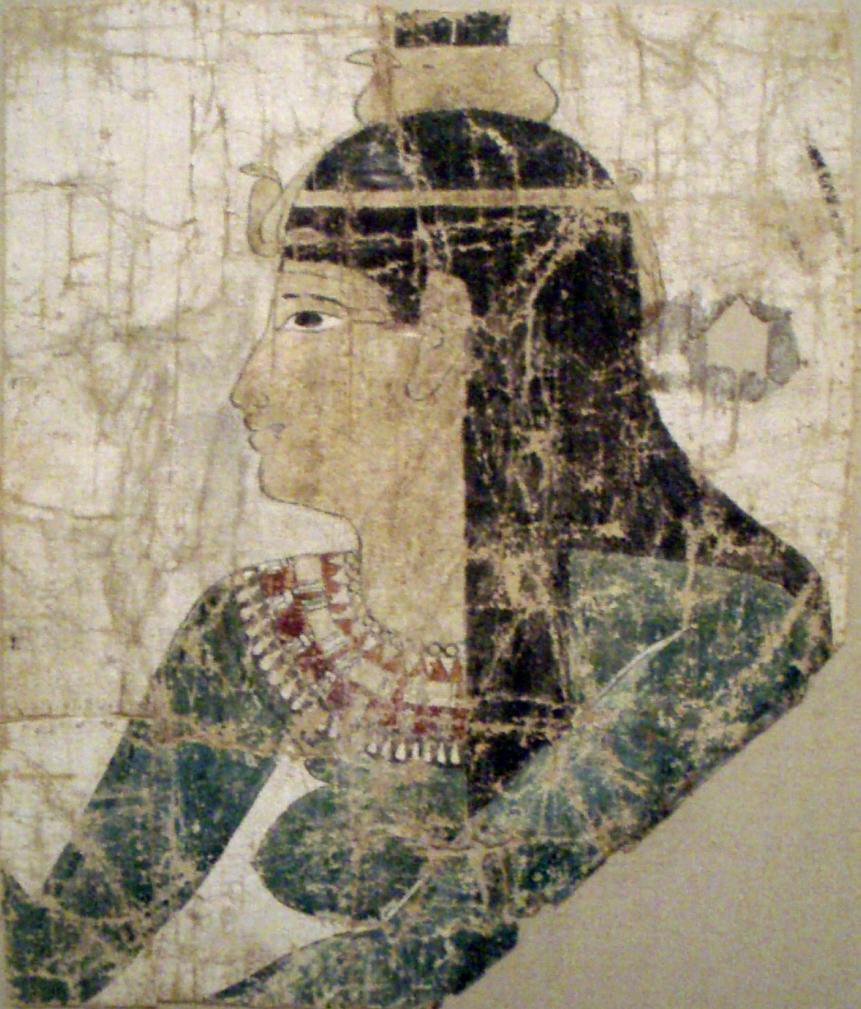 The painted image of the goddess Nephthys from a shroud, made of linen and tempera. Likely from the 2nd to 1st century B.C. Now on display at the Metropolitan Museum of Art.